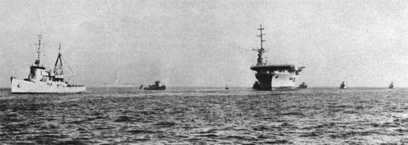 The U.S. Navy fleet tug USS Chowanoc (ATF-100) tows the decommissioned aircraft carrier USS Philippine Sea (CVS-47).Philippine Sea was decommissioned 28 December 1958 and berthed with the United States Reserve Fleet at Long Beach, California (USA).